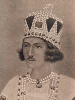 Mubaraq Ali Khan